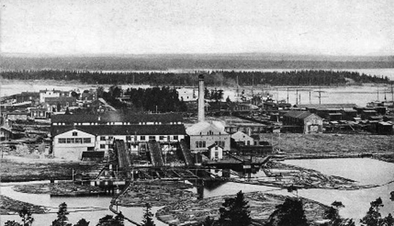 Sandvik sawmill in the beginning of the 20th century. The building was created in 1889.